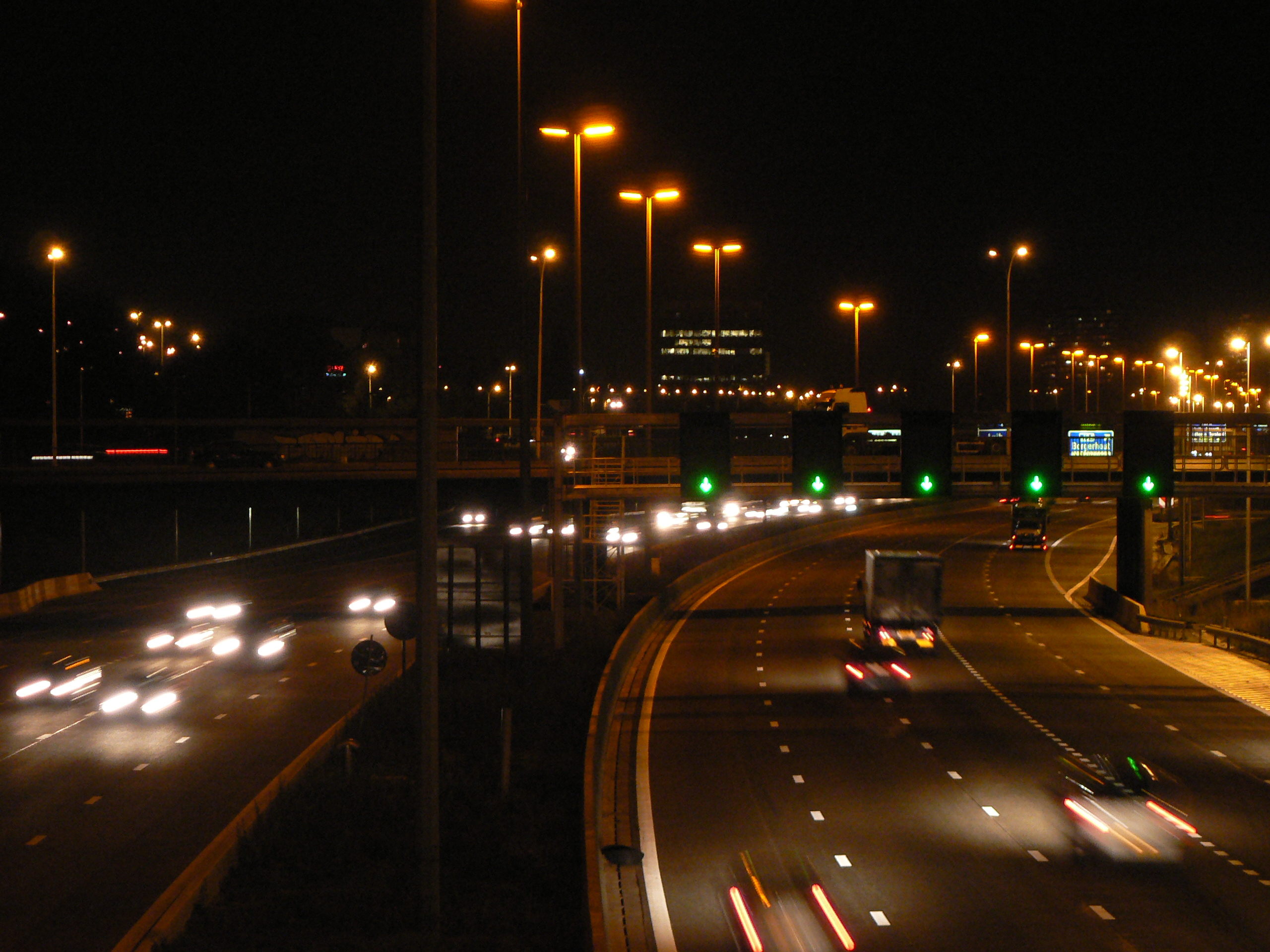 E17 motorway Antwerpen (Borsbeekbrug, direction Netherlands)